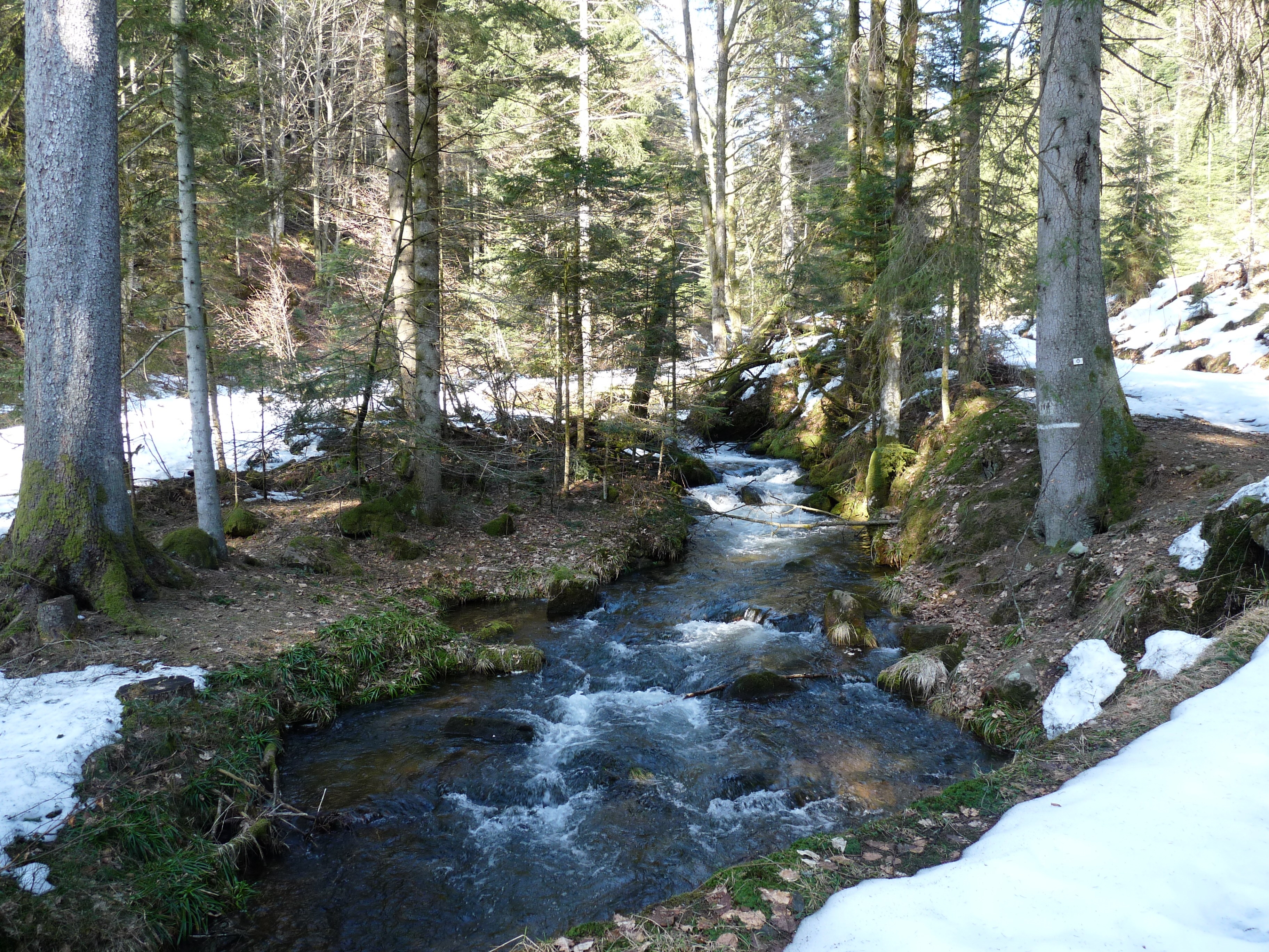 Rabodeau river between col de Prayé and Moussey (Vosges)